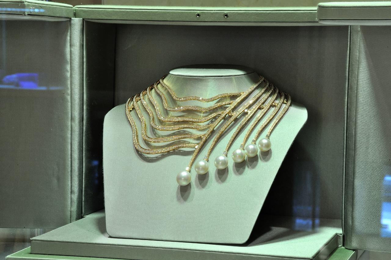 Maison Tabbah necklace made of 18k rose gold set with 1,237 diamonds and 6 pear shaped white pearls. Commissioned by Charlene, Princess of Monaco for her wedding with Albert II, Prince of Monaco in 2011. Designed by Nagib Tabbah. Necklace is photographed on display at a public exhibition.